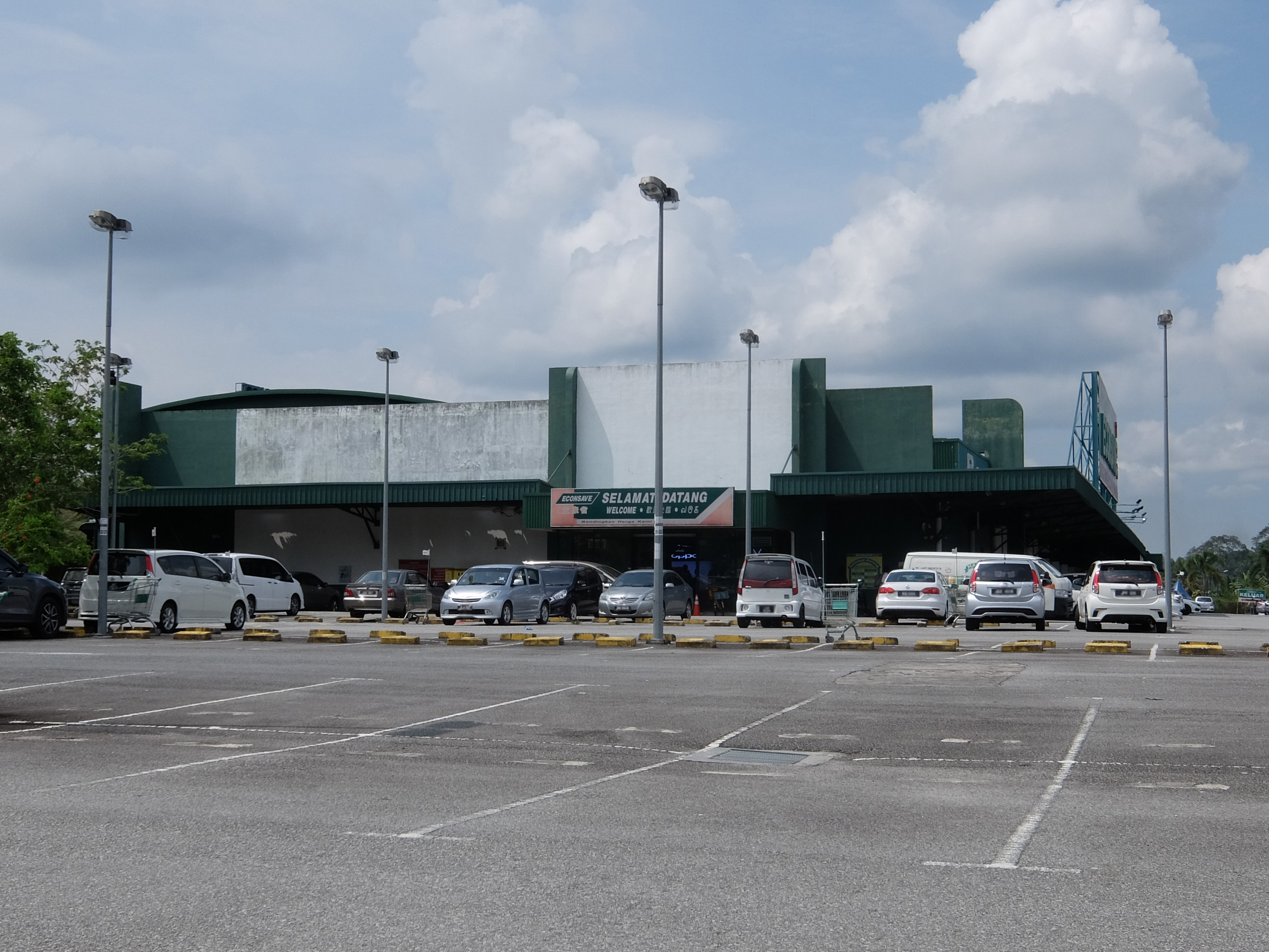 Econsave Pekan Nanas, Pekan Nanas, Pontian, Johor, Malaysia